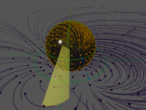 Mobius transformation, showing stereographic projection between plane and sphere. Generated with POVRAY. Povray file created with a java program.